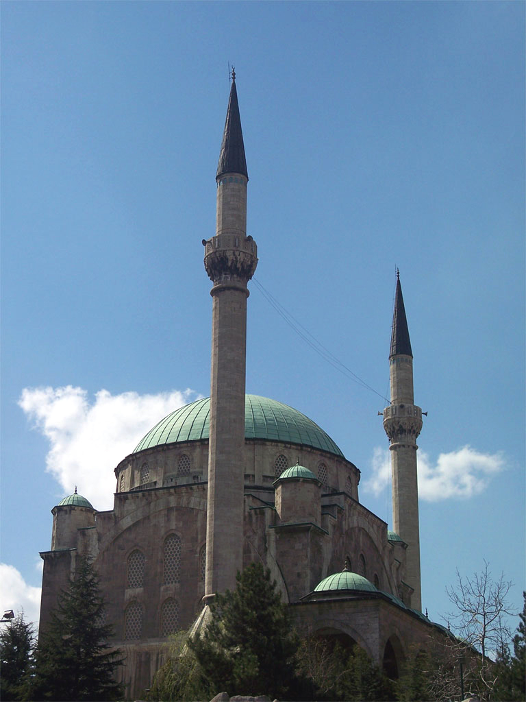 Maltepe Mosque, in Ankara/Turkey.